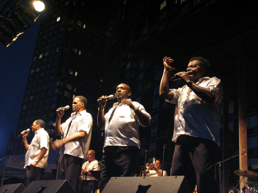 New York band Little Anthony & The Imperials. This picture was taken by me, John Mitchell, on August 2005, at a concert I did the lighting for in Battery Park City, Rockefeller Park, Manhattan, NY. More information, including EXIF data can be found on my flickr page